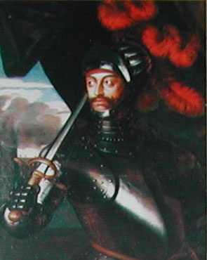 Ulrich I. Cirksena, unsigned portrait. See this article on the image's restoration for further information (in German).